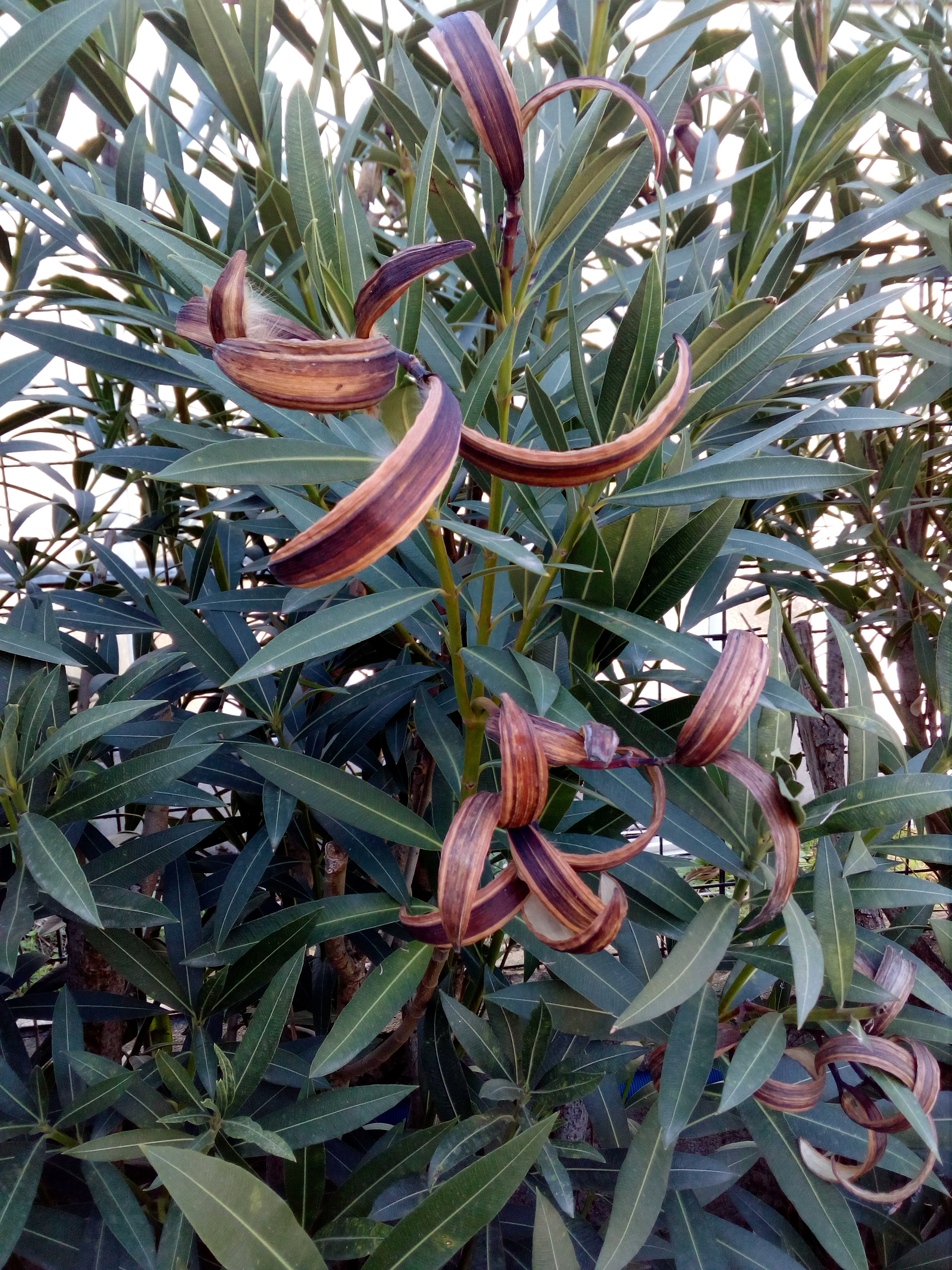 Fruits of Nerium